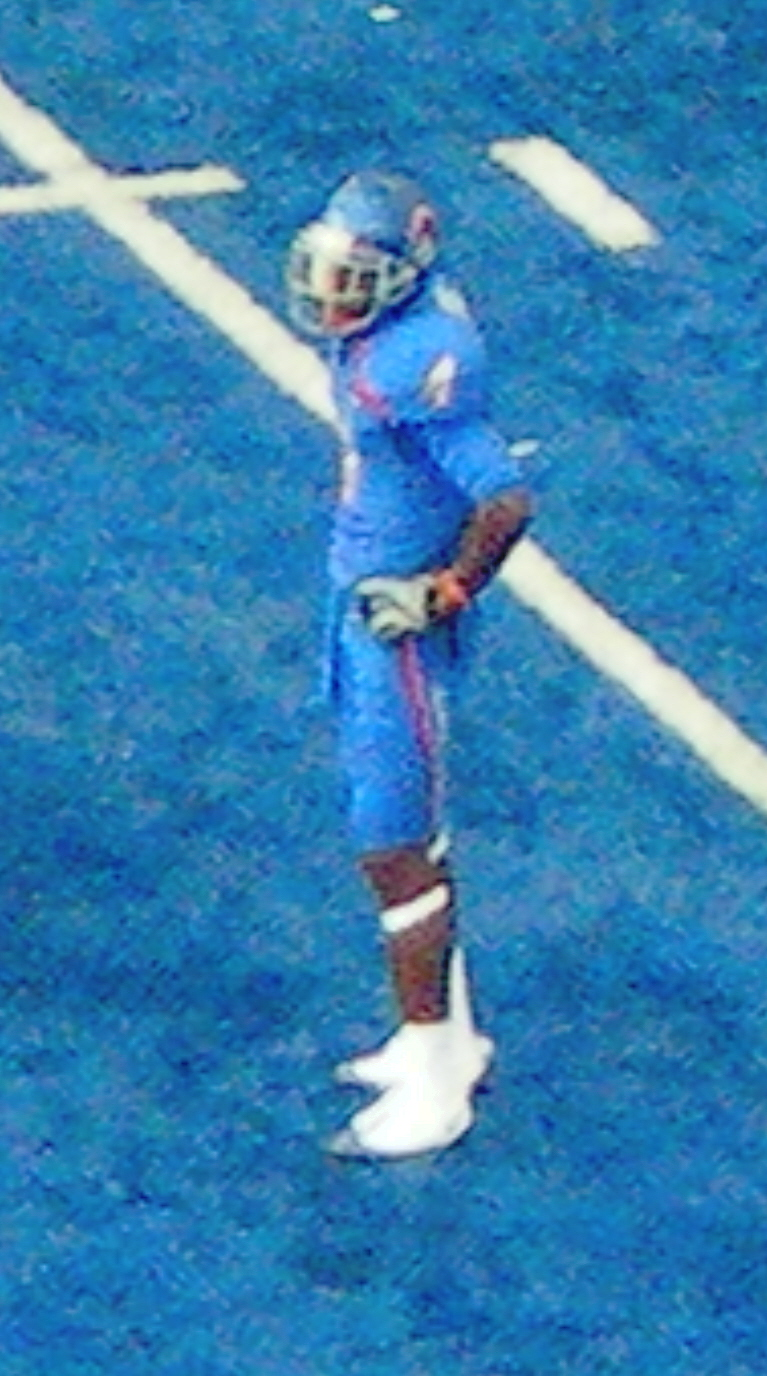 Boise State wide receiver Titus Young during a game vs San Jose State on October 31, 2009 in Boise, ID